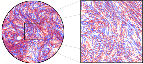 Stable (red) and unstable (blue) manifolds extracted from a quasi-two-dimensional turbulent flow experiment as ridges of the forward-time and backward-time DLE fields, respectively.